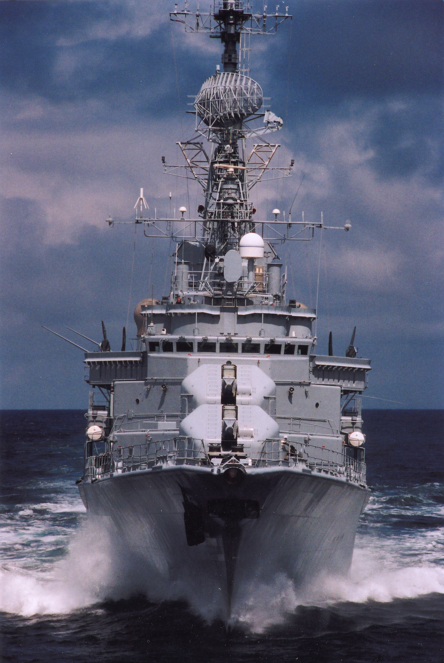 The Tourville (D 610), a F67anti-submarine frigate